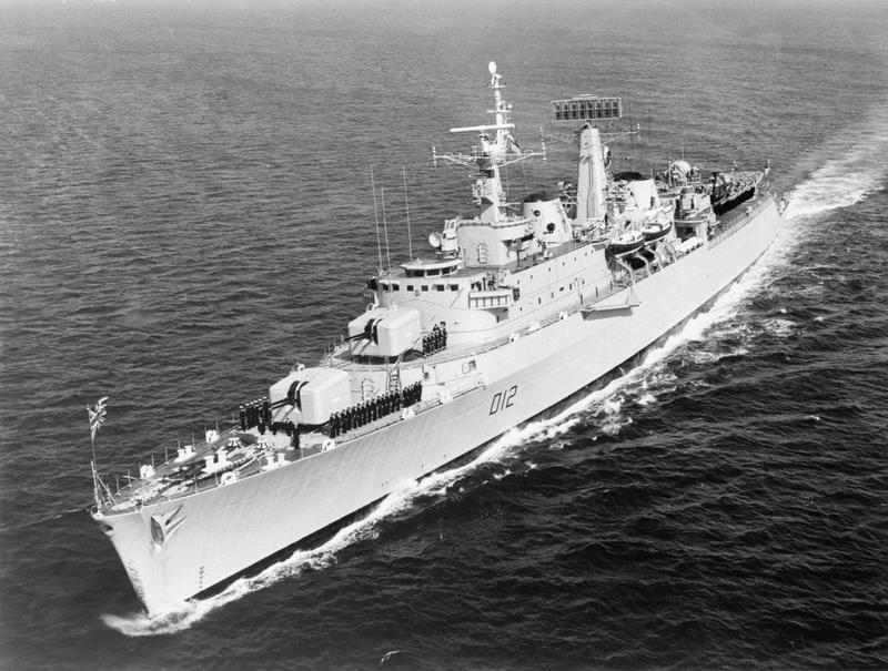 County class destroyer HMS Kent, c1963 (IWM HU 129867)